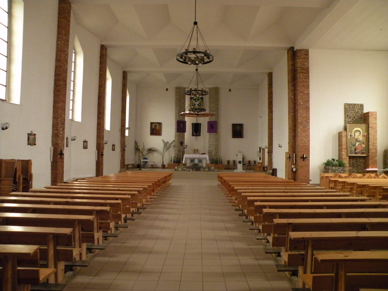 Saint Albert's Church in Kętrzyn (Poland)